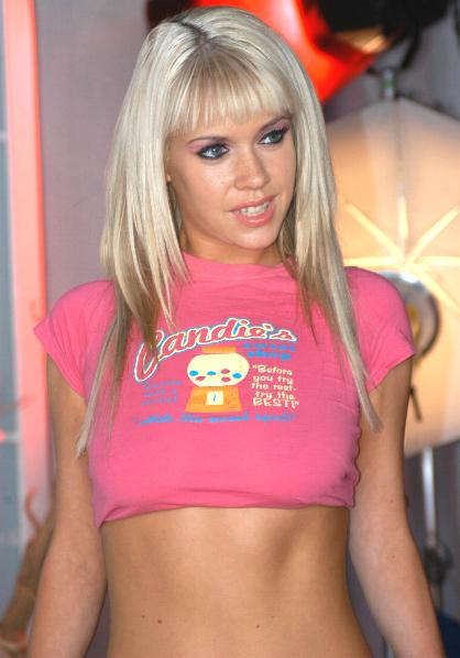 Kissy Kapri on set Britney Rears 4 from Hustler, February 22, 2007.